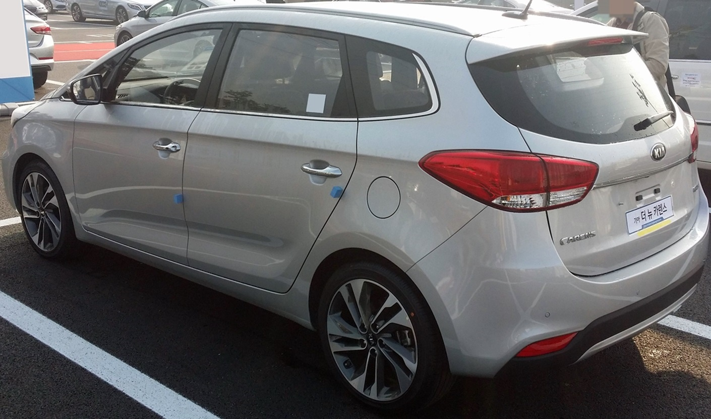 Kia The New Carens